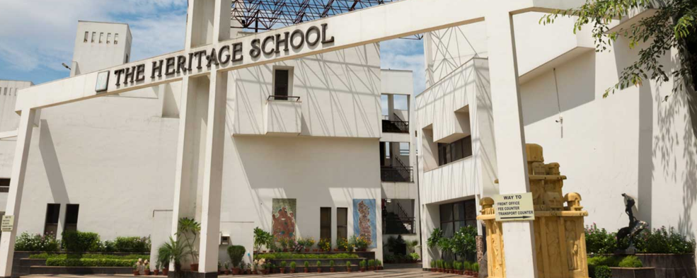 This is the entrance of heritage Xperiential Learning School which is a very famous school in gurgram